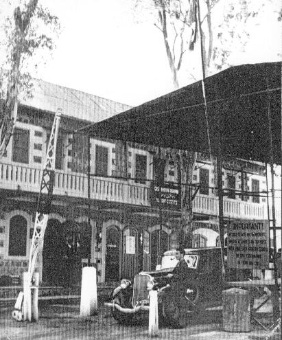 Customs House, Rosh Pinna. January 1939